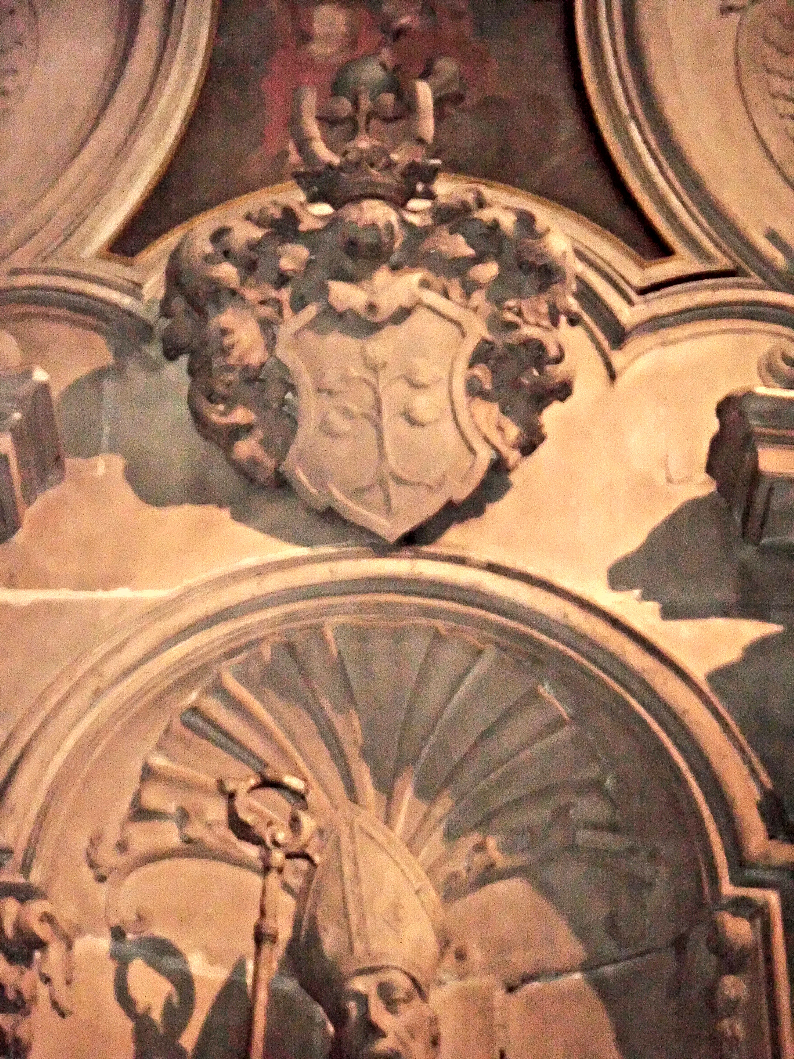 Wappen des Domkapitulars Franz Rudolph von Hettersdorf (1675-1729), an dem von ihm gestifteten Nikolaus-Altar im Wormser Dom